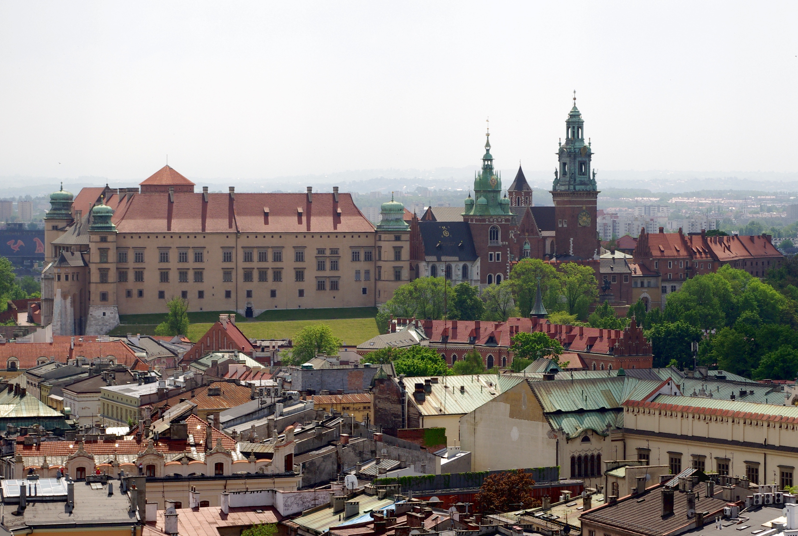 The Wawel Hill in Kraków, seen from the highest tower of St. Mary's Church